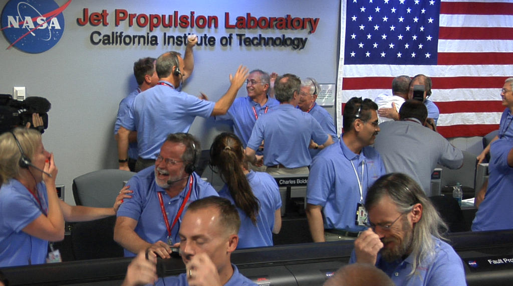 Engineers at NASA's Jet Propulsion Laboratory in Pasadena, Calif., celebrate the landing of NASA's Curiosity rover on the Red Planet. The rover touched down on Mars the evening of Aug. 5 PDT (morning of Aug. 6 EDT).